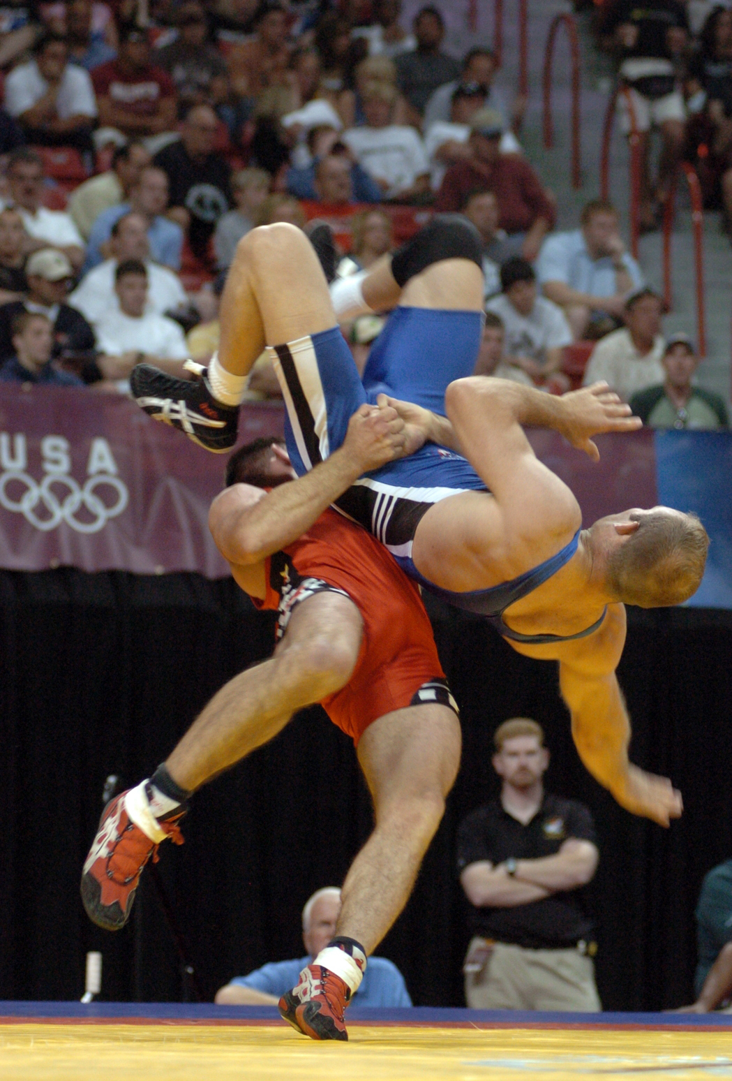 In the final victory of his wrestling career, Staff Sgt. Keith Sieracki throws U.S. Army World Class Athlete Program teammate Sgt. Jess Hargrave during their 74-kilogram Greco-Roman match in the 2008 U.S. Olympic Team Trials for Wrestling June 14, 2008, at the University of Nevada, Las Vegas' Thomas & Mack Center.